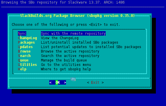 Sbopkg